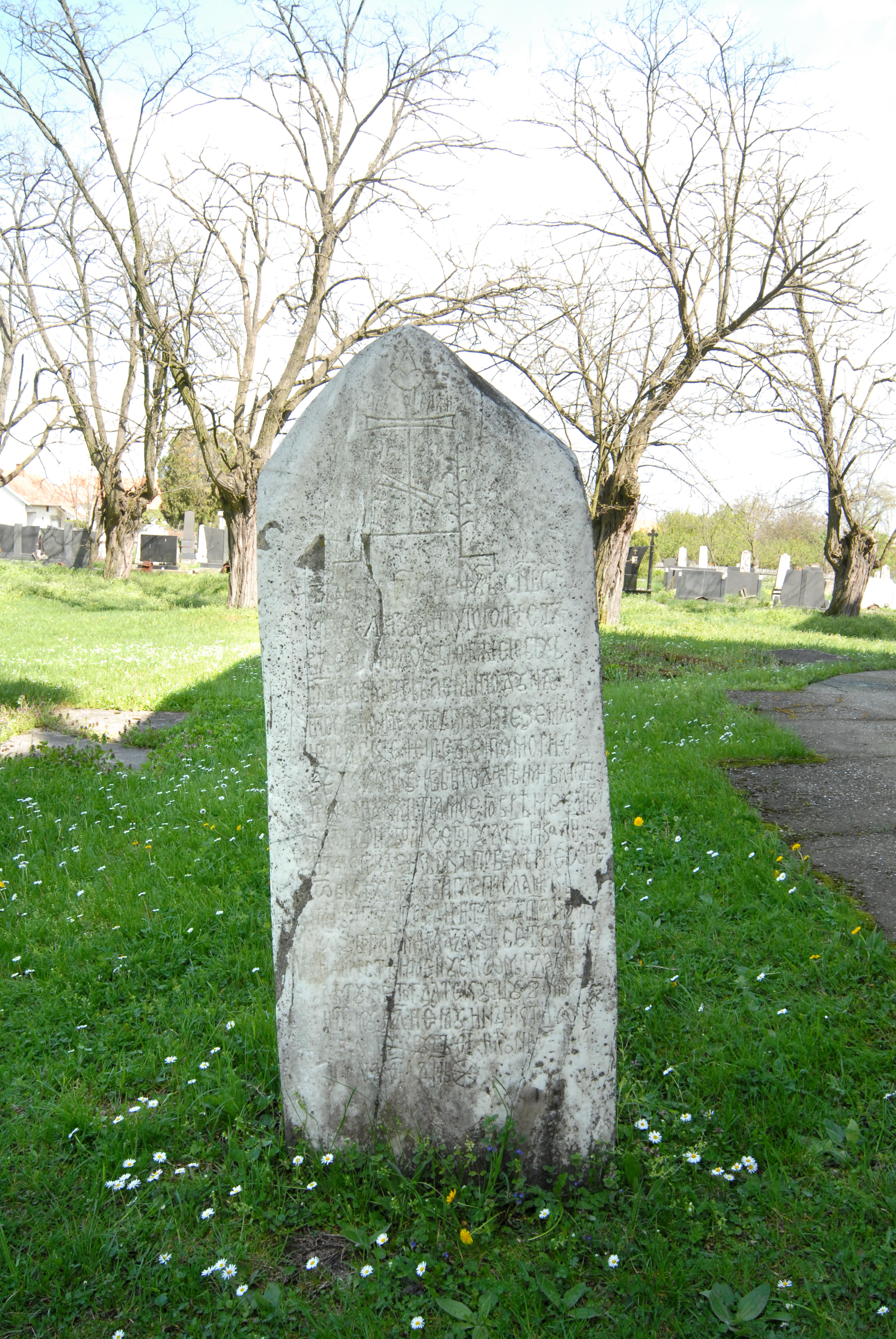 Споменик на месту смрти деспота Стефана